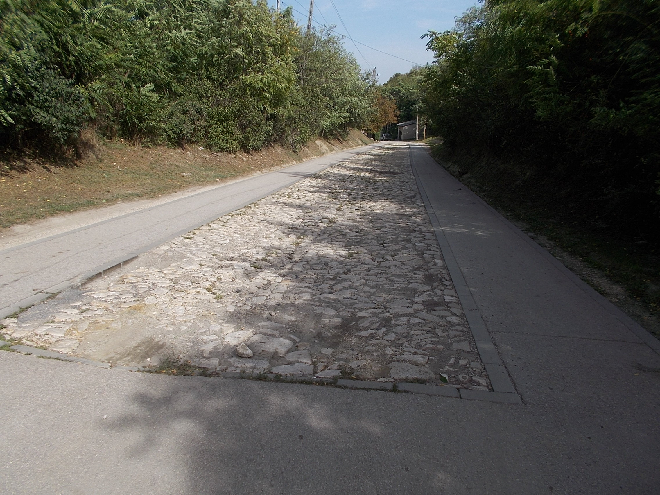 Roman Road on the Confines of Érd. Via Pannonia between Camp Campona and Matrica. 2nd and 3rd. cent. ( (PDF)). - Mély Street, Ófalu, Érd, Pest County, Hungary.